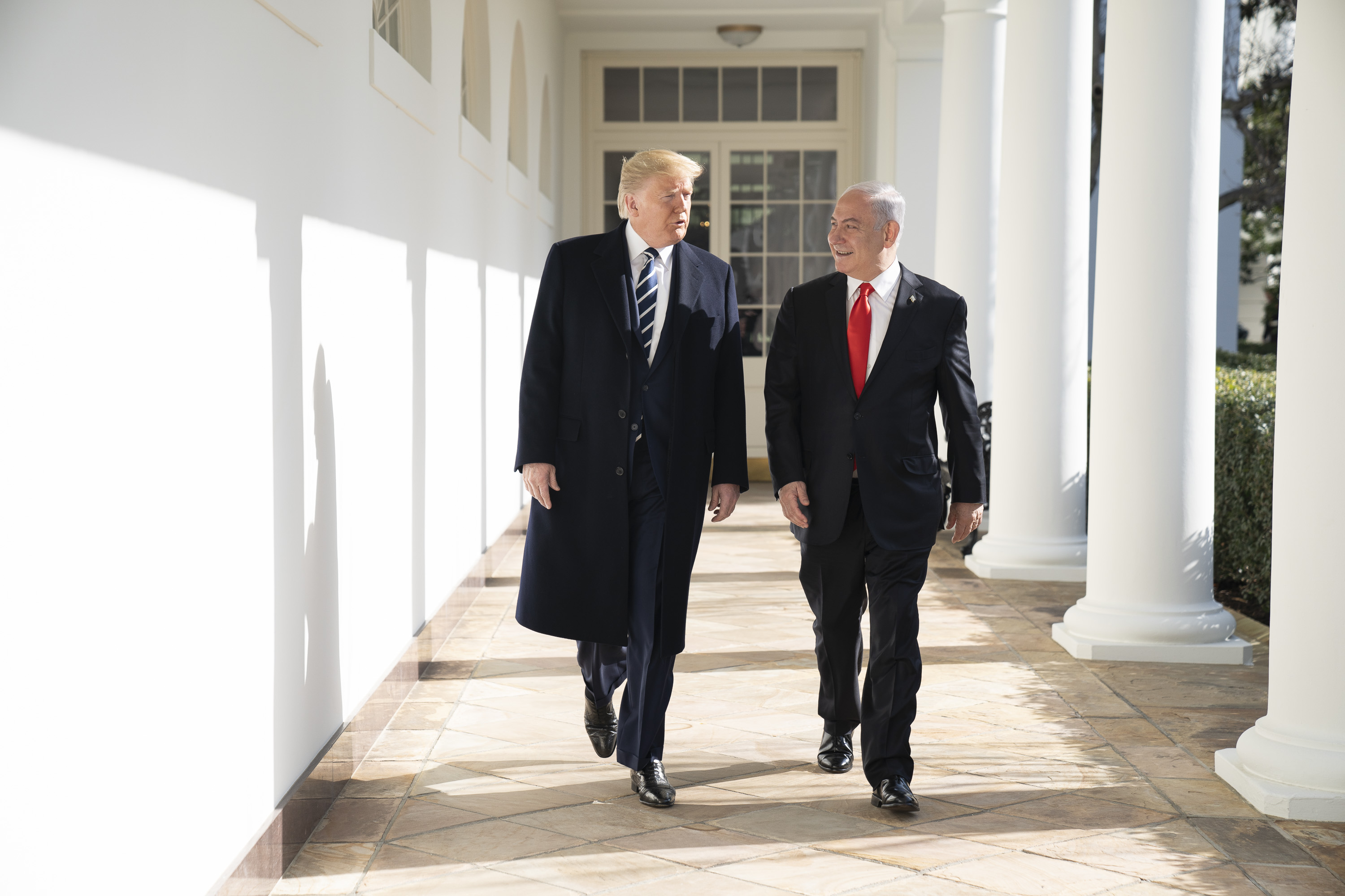 President Donald J. Trump walks with Israeli Prime Minister Benjamin Netanyahu Monday, Jan. 27, 2020, along the Colonnade of the White House. (Official White House Photo by Shealah Craighead)